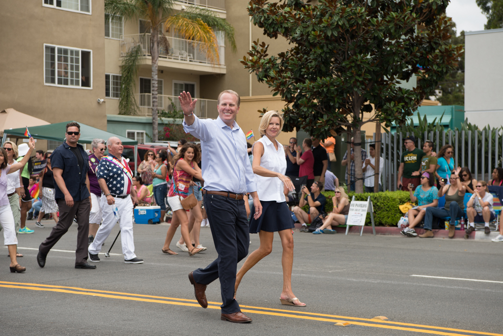 San Diego Mayor Kevin Faulconer marching in the 2014 San Diego LGBT Pride Parade